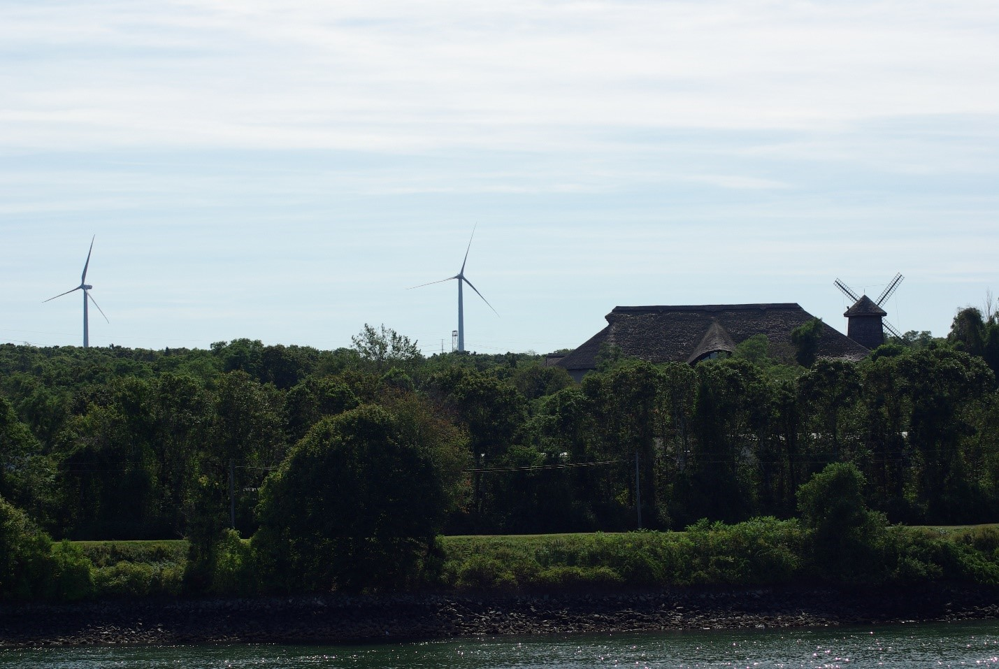 quote from website listed below: "The Air Force's two new wind turbines at the Massachusetts Military Reservation in Cape Cod, Mass., seen from a distance, pose an interesting contrast to an ornamental traditional windmill atop a local Cape Cod shop. The 1.5 megawatt wind turbines, in addition to an existing turbine, were built to offset electrical costs for powering numerous groundwater cleanup systems at the reservation. The turbines will pay for all the Air Force's electric needs for groundwater remediation at MMR, saving more than $1.5 million per year. (U.S. Air Force photo/Scott Dehainaut)" cite